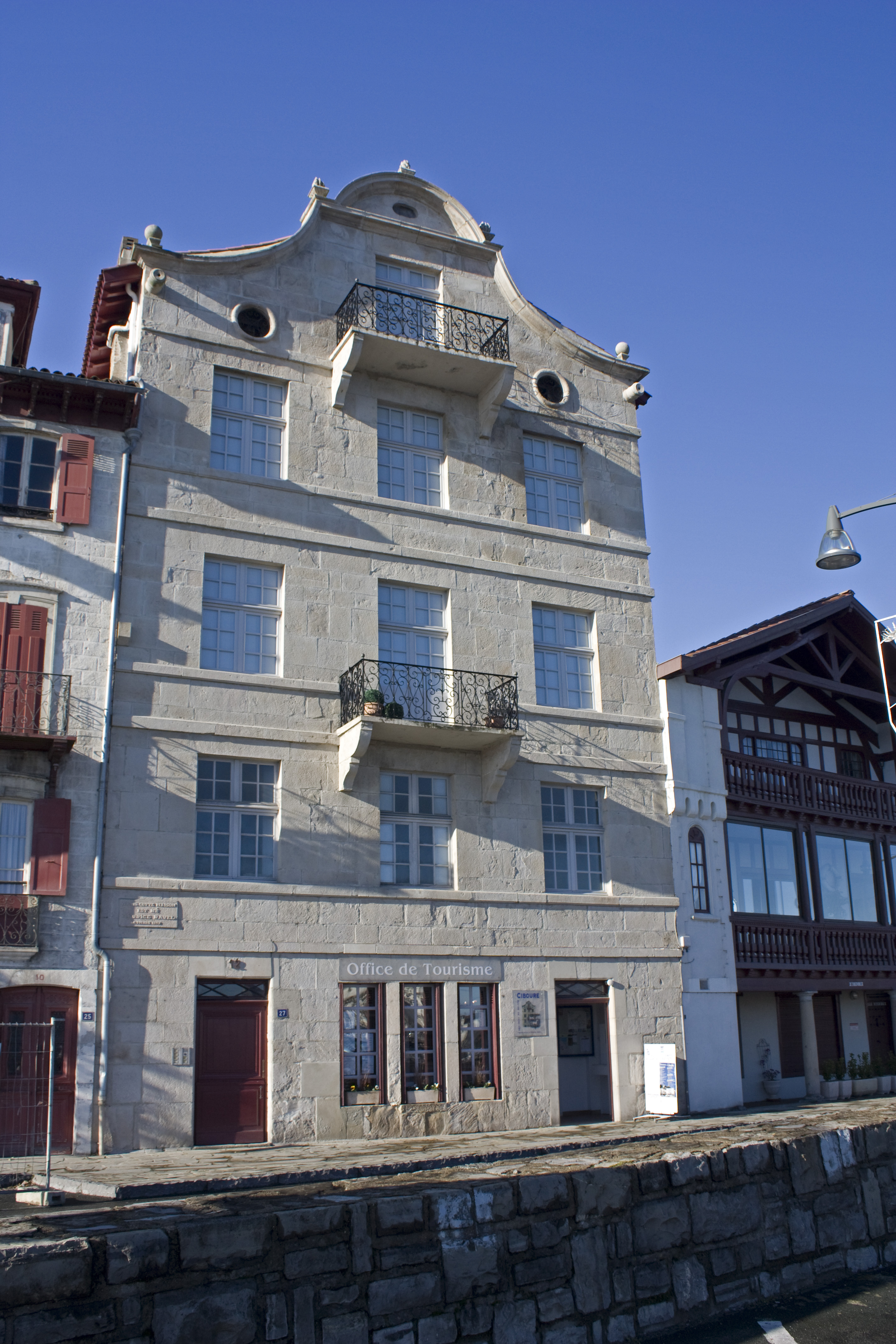 Birth house of Maurice Ravel.